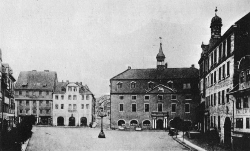 Marketplace and old town hall (demolished 1903) in Helmstedt.